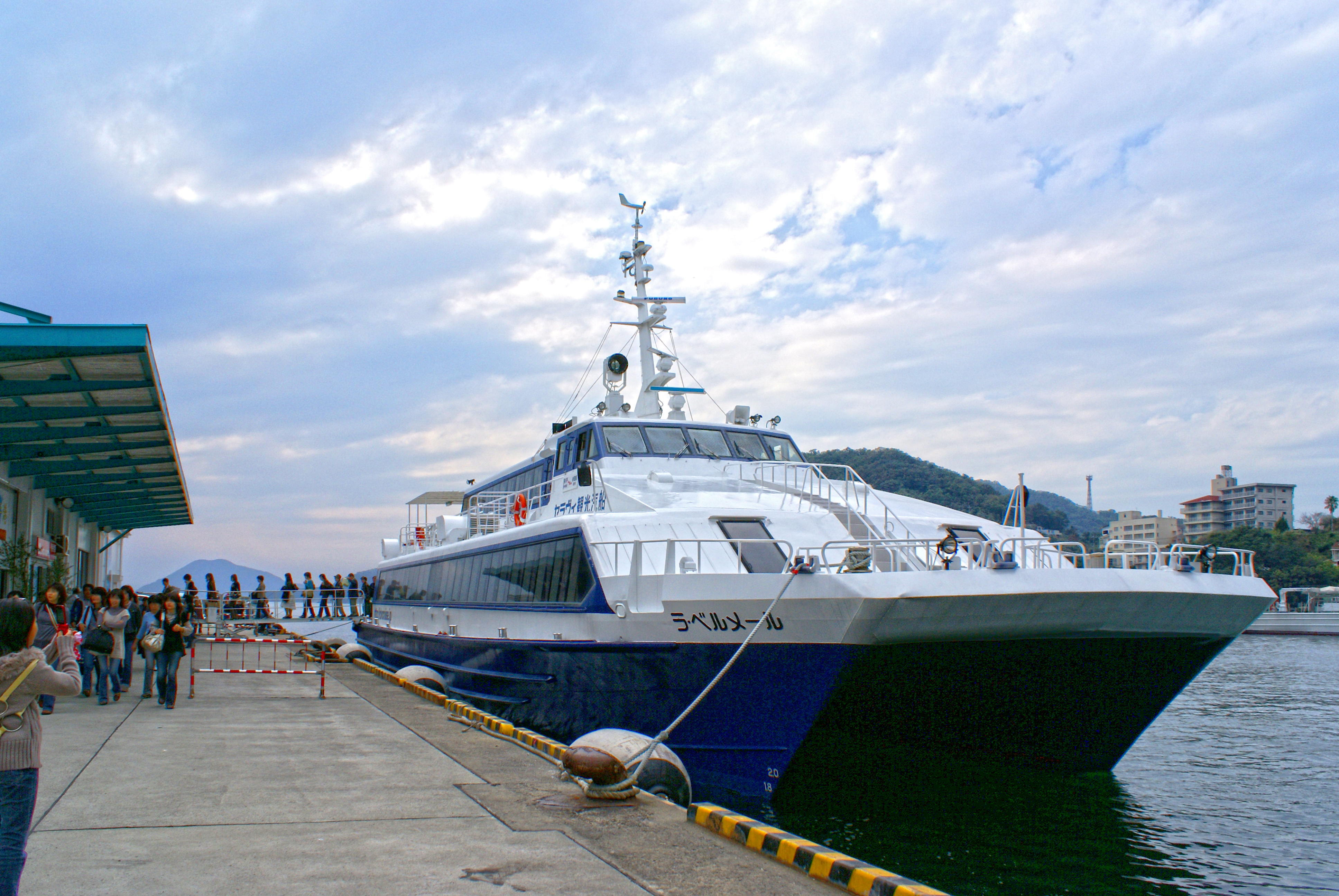 "La Belle Mer" who anchors at Sakate port in Shodoshima island Kagawa Prefecture, Japan)